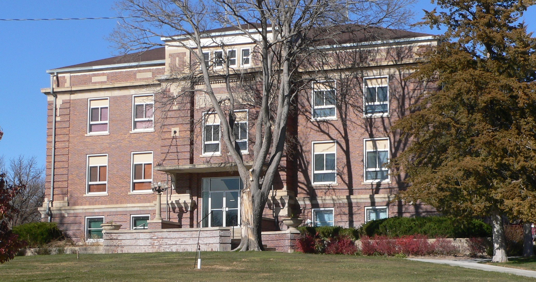 Dundy County Courthouse in Benkelman, Nebraska; seen from the southeast.